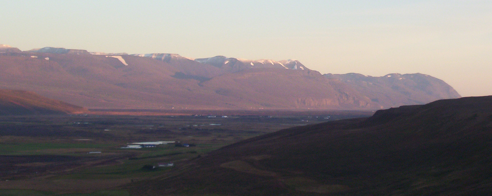 Photographed by Gestur Pálsson in July 2004. Shows Kinnafjöll mountains in Northern Iceland.